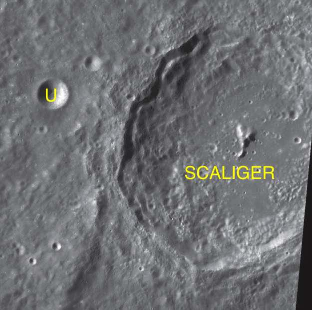 Part of the chart LAC-100 used for the presentation.